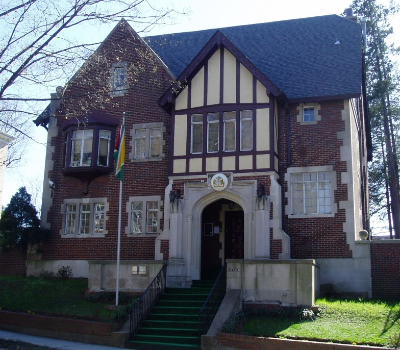 Embassy of Guyana in Washington, D.C. Taken by SimonP in April, 2005